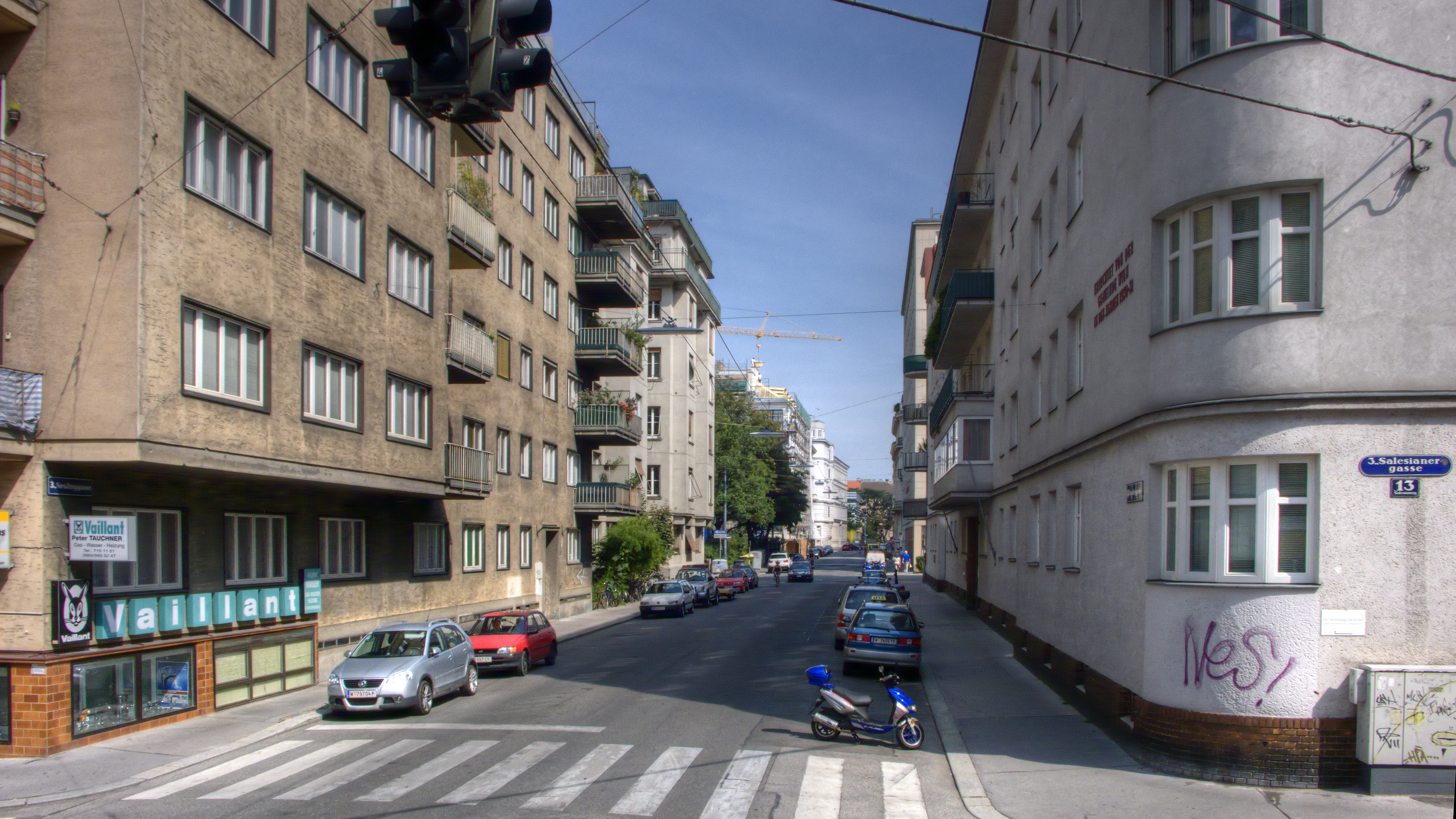 Neulinggasse in Vienna Landstraße